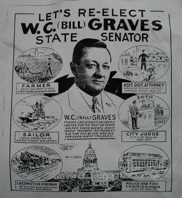 A freely, publicly, distributed Campaign flier - free to the public - from the WC Graves Texas Senate Campaign